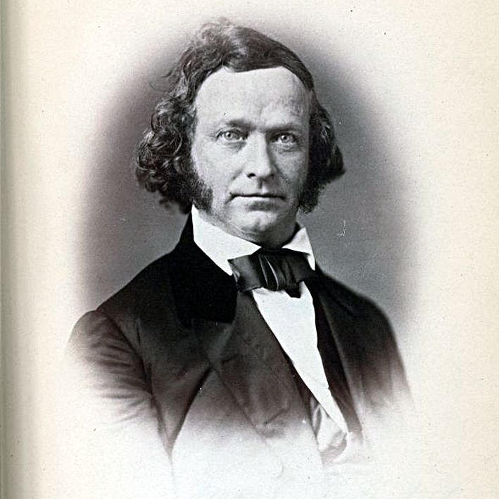 Silas M. Burroughs, US Representative from New York